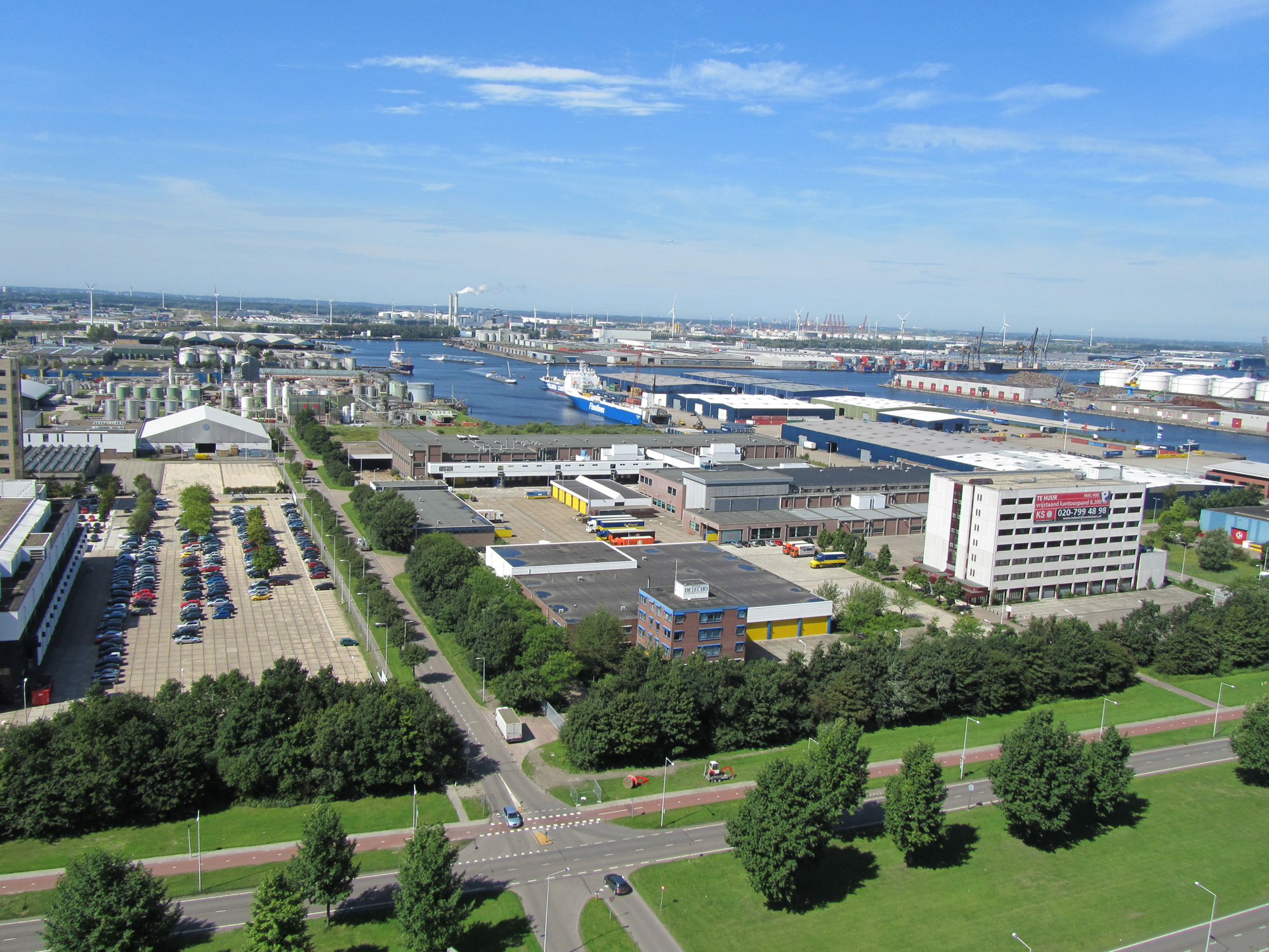 The Westhaven in the western harbour area of Amsterdam. Photo taken from the 18th floor of the Elsevier building on Radarweg.